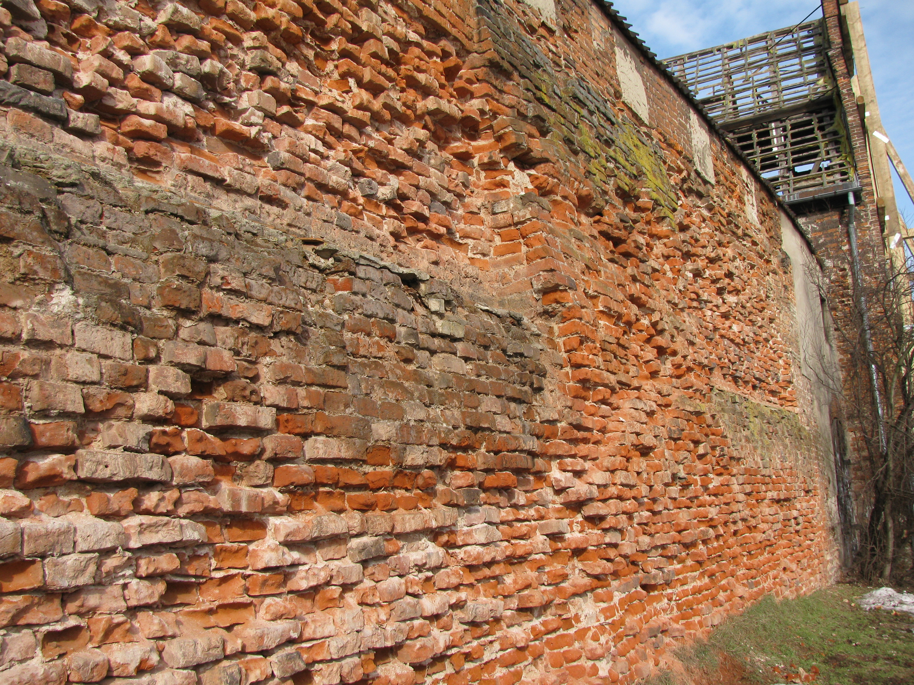 Middle Ages brick defensive walls of Gdansk, Poland.